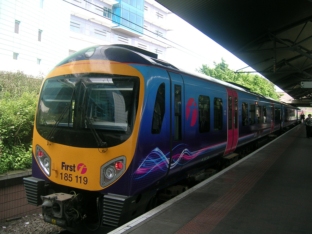 First Trains 185119 at Manchester Airport railway station